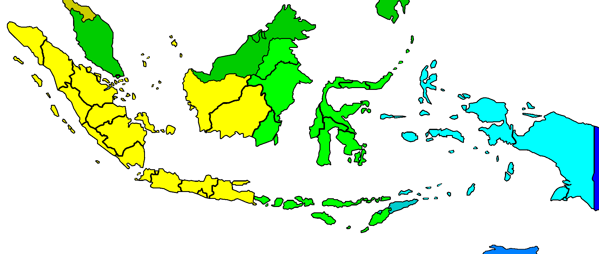 Timezones in Indonesia... Red : UTC+7 (Waktu Indonesia Barat/Western Indonesian Time) Yellow : UTC+8 (Waktu Indonesia Tengah/Central Indonesian Time) Green : UTC+9 (Waktu Indonesia Timur/Eastern Indonesian Time) Blank map of the provinces of Indonesia, useful for labeling in other languages. Made by User:Golbez based on a PD CIA map, using other sources to guesstimate the extent of West Irian Jaya and West Sulawesi.